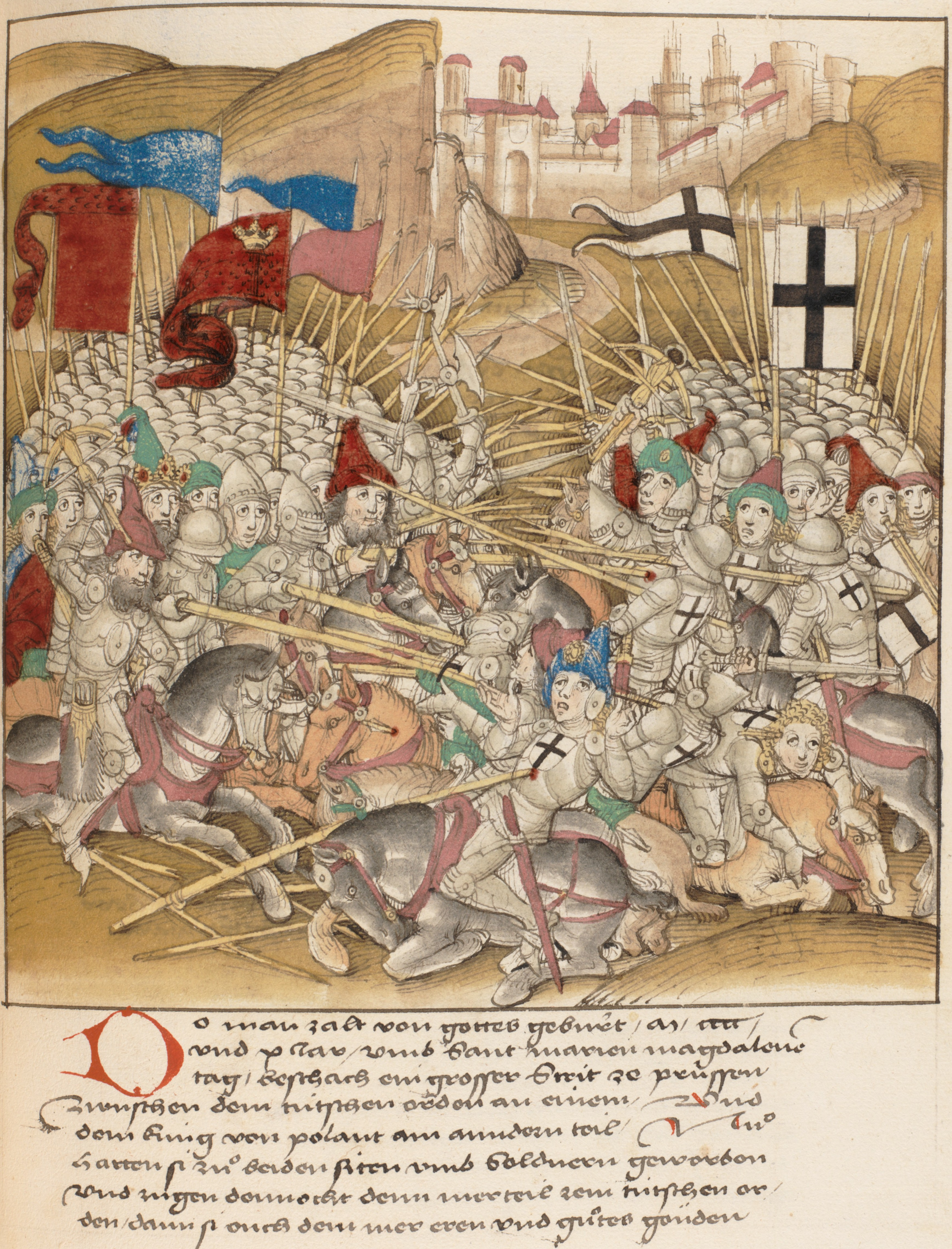 Battle of Tannenberg between the Teutonic Knights (black cross on white) and the Polish-Lithuanian forces, depicted in the Berner Chronik of Diebold Schilling.